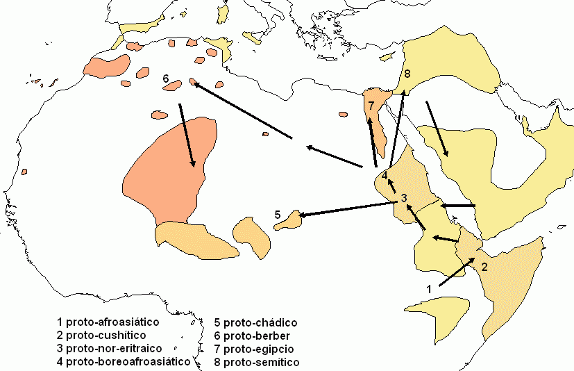 Description: A map showing the expansion of Afro-asiatic languages. Author: Davius